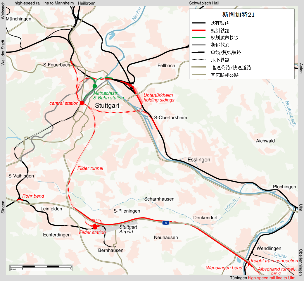 Map Stuttgart 21 outer_zh-cn